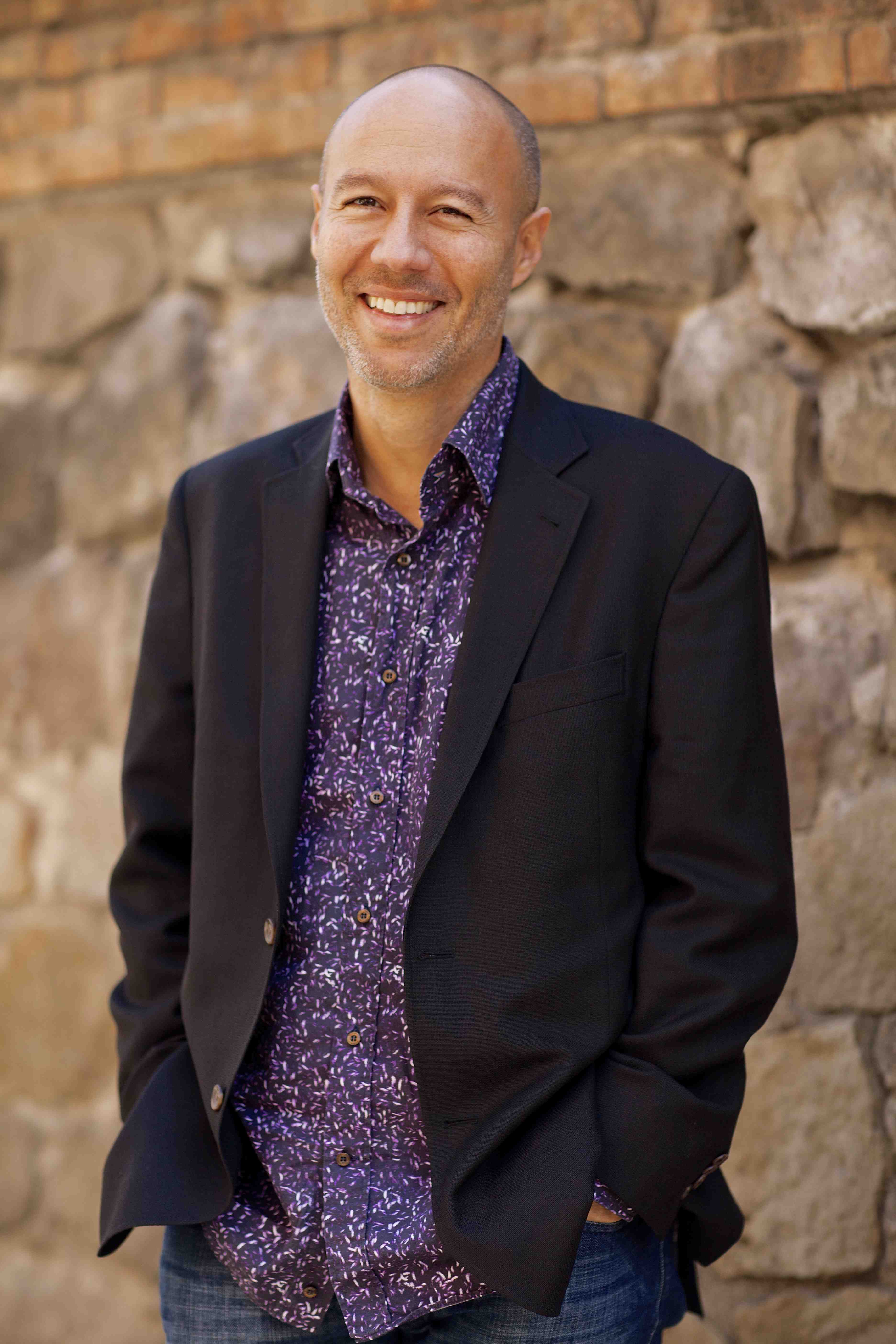 David Risher in Barcelona